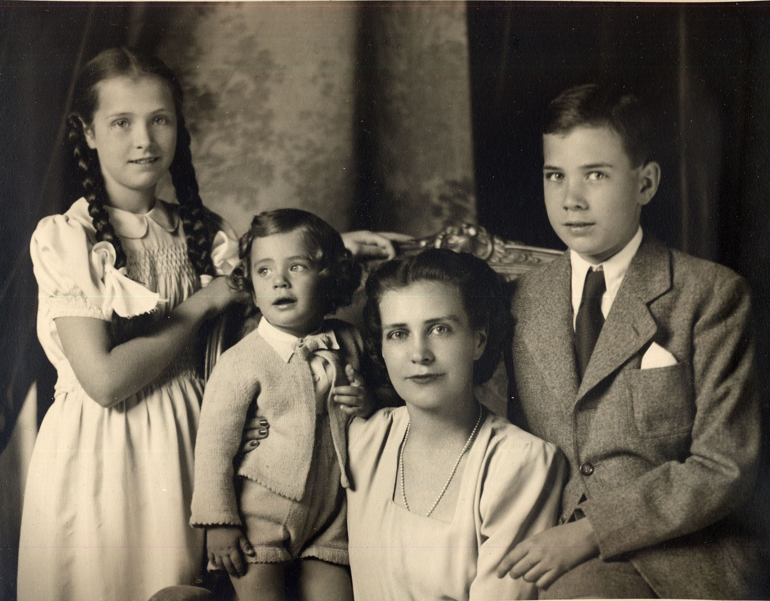 Eugen Filotti's family: wife Elisabeta and children Andrei, Domnica şi Ion in the drawing rooms of the Romanian Legation of Budapesta in 1943